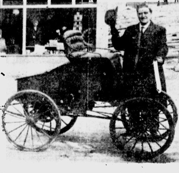 Fay L. Cusick in Gottfried Schloemer's automobile that he bought from him.